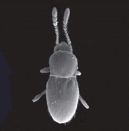 ZooKeys - Cephennium aridum Cut-out from original (Cephennium spp.jpg) shown below